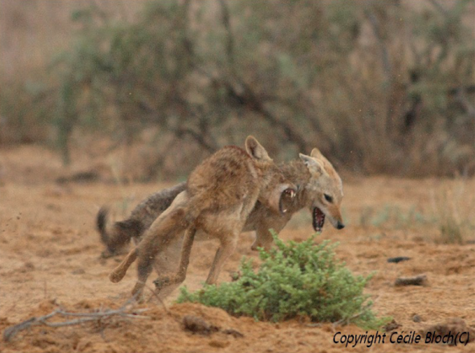 African golden wolves in Senegal. (photograph: C. Bloch).